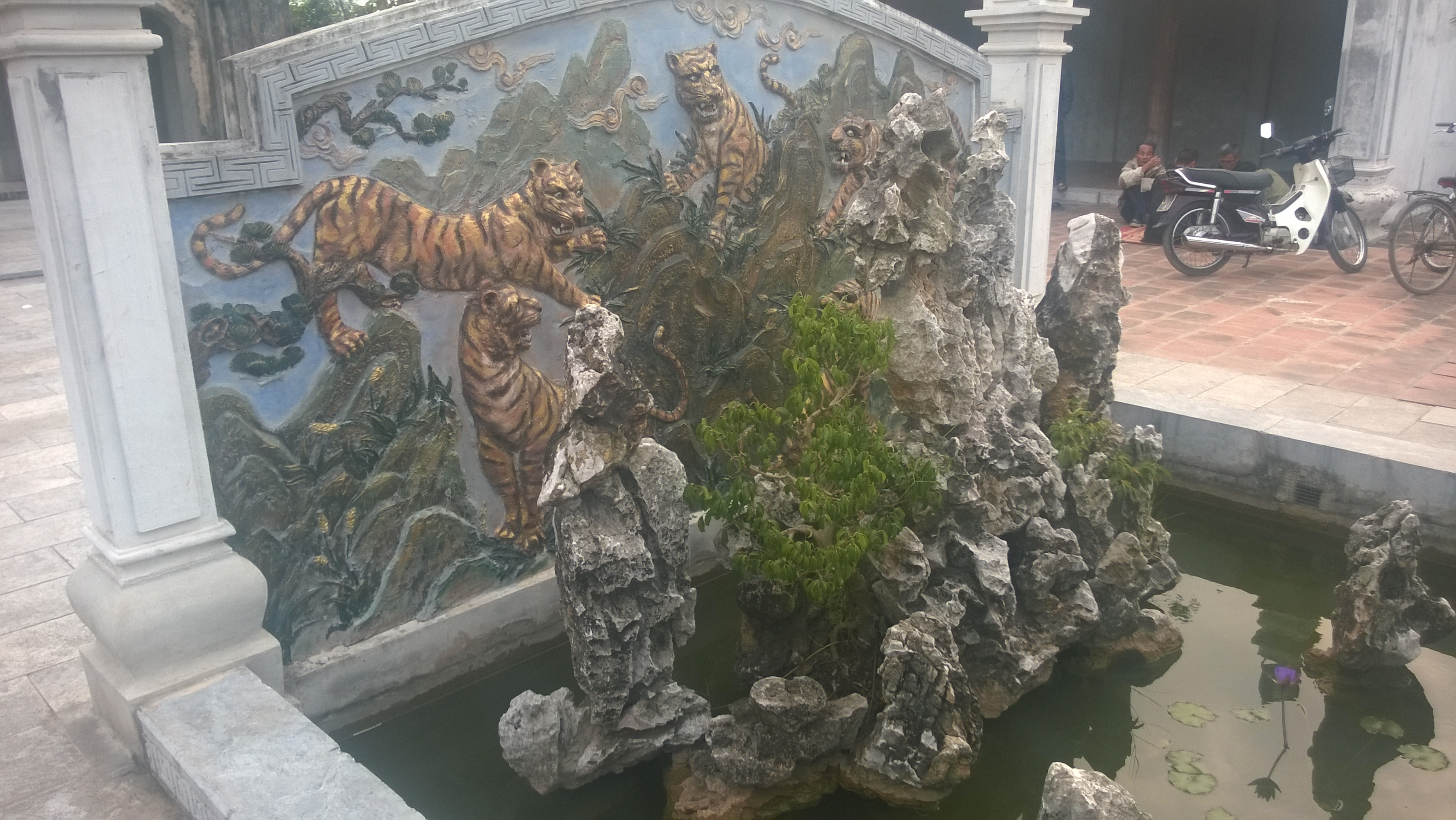 A Buddhist temple near the reptile village in Hanoi in 2014.